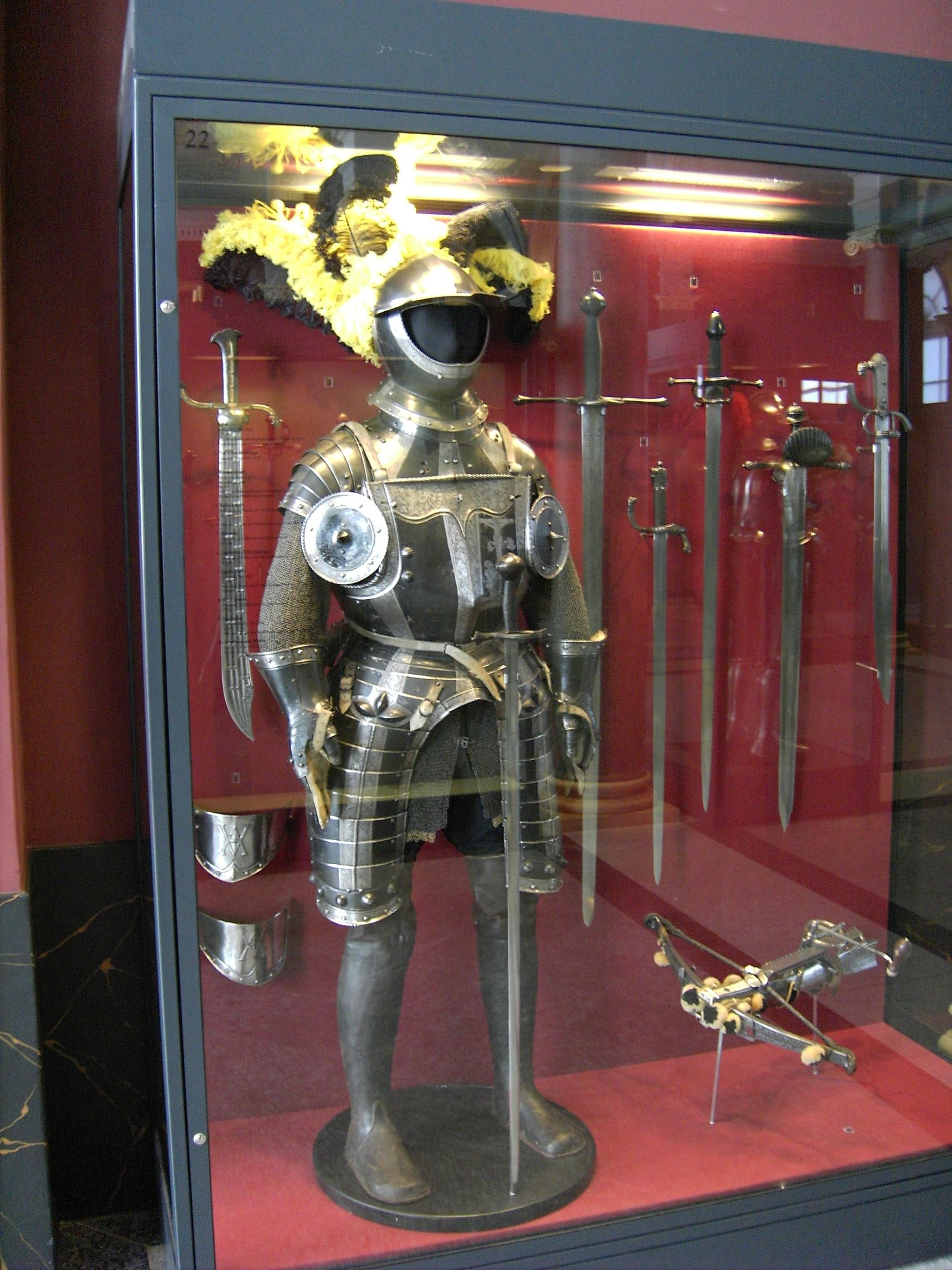 Dresden, Zwinger-Museum. 16th or 17th century armour and weapons.